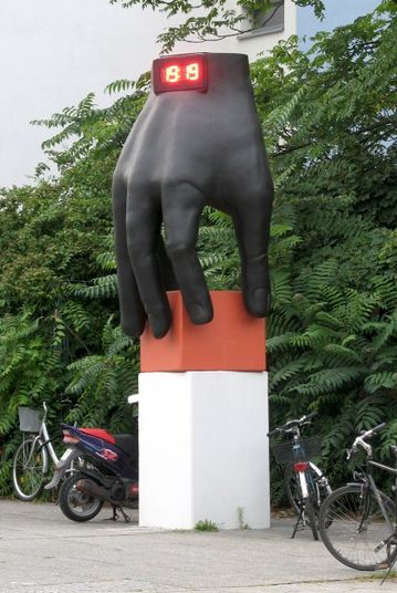 Joachim Schmettau, Hand with watch (1975) Berlin-Hansaviertel, Altonaer Straße 25, intersection with Lessingstraße, after restoration 2012